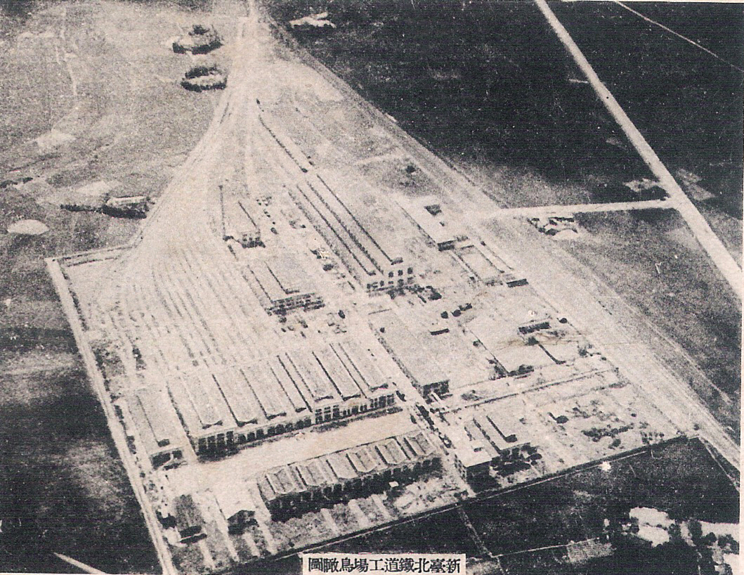 View of Taipei Railway Workshop when it completed in 1935 中文（台灣）: 臺鐵臺北機廠(交通局新臺北鐵道工場)建設工程完公鳥瞰圖